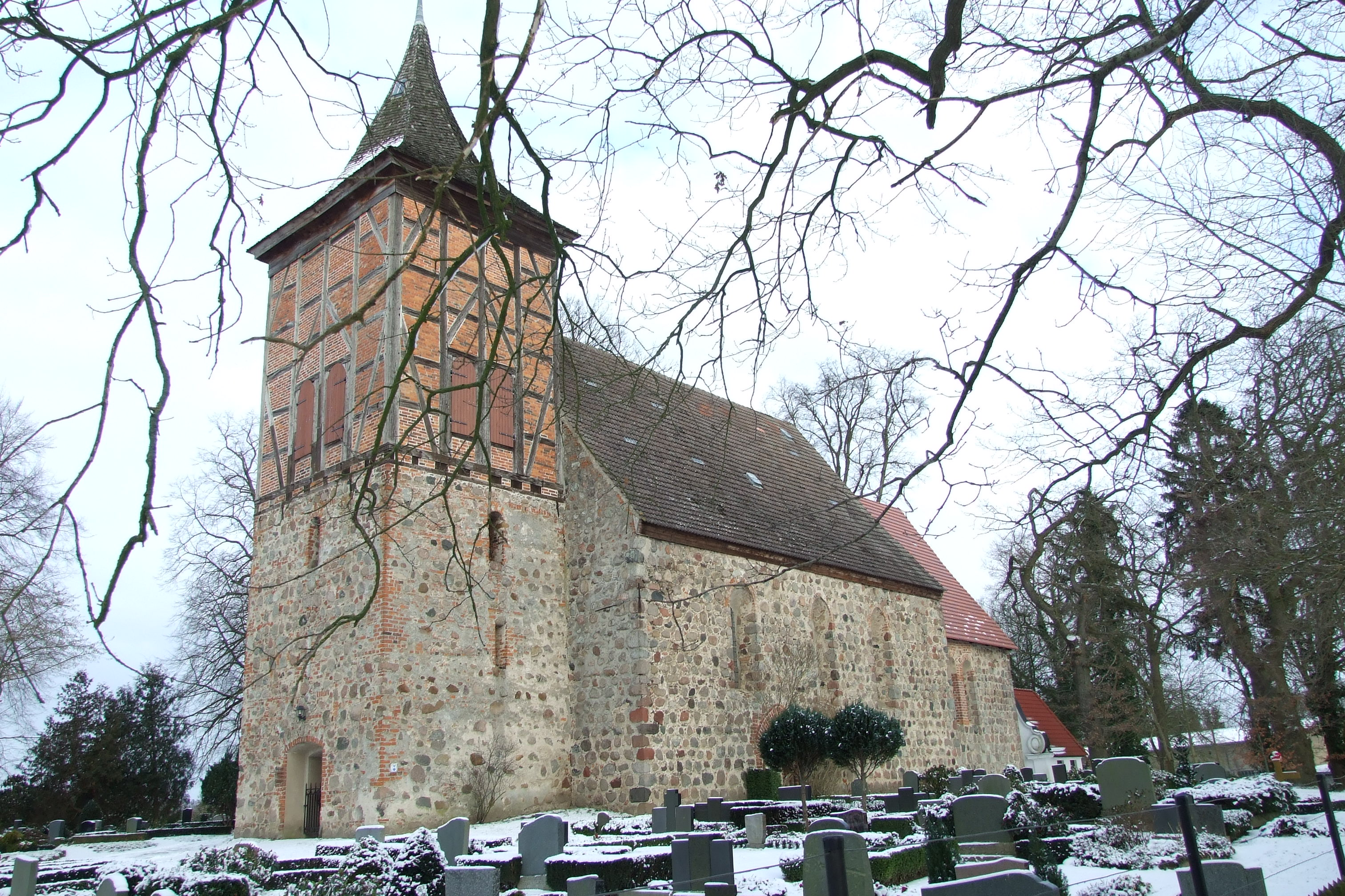 Church in Kölzow